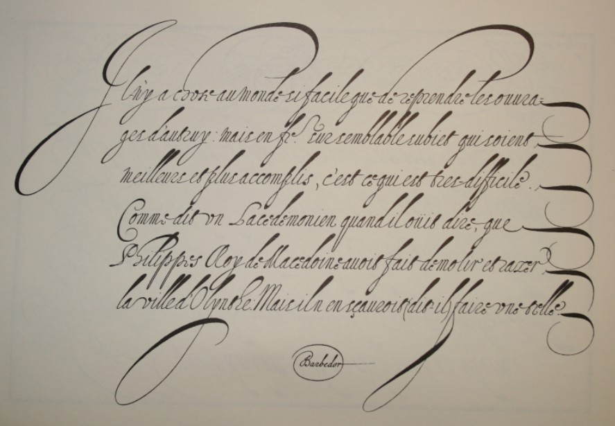 Calligraphy example by Barbedor